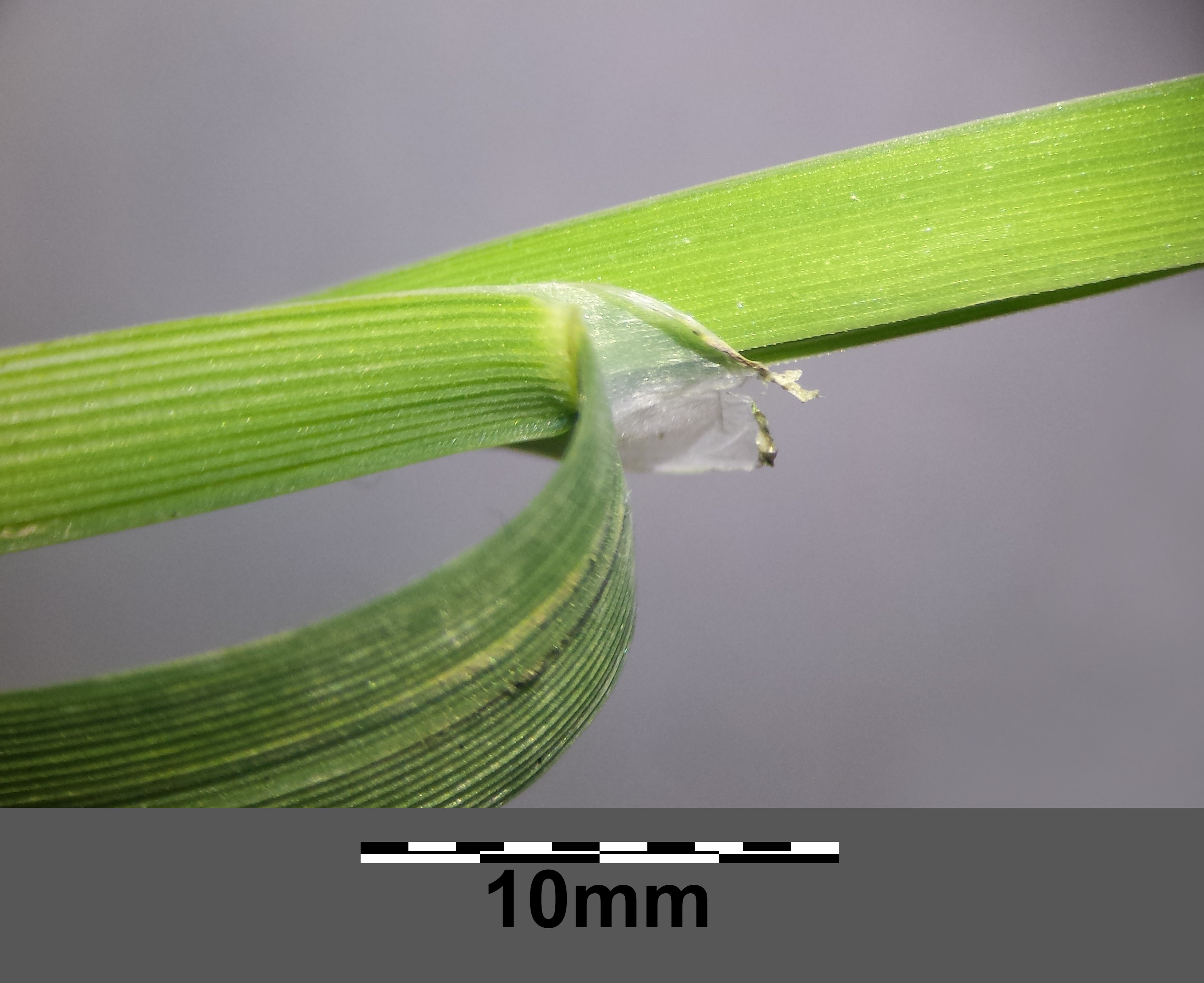 Stem with leaf sheath and ligule Taxonym: Glyceria notata ss Fischer et al. EfÖLS 2008 ISBN 978-3-85474-187-9 Location: Bergau, district Hollabrunn, Lower Austria - ca. 230 m a.s.l. Habitat: brookside